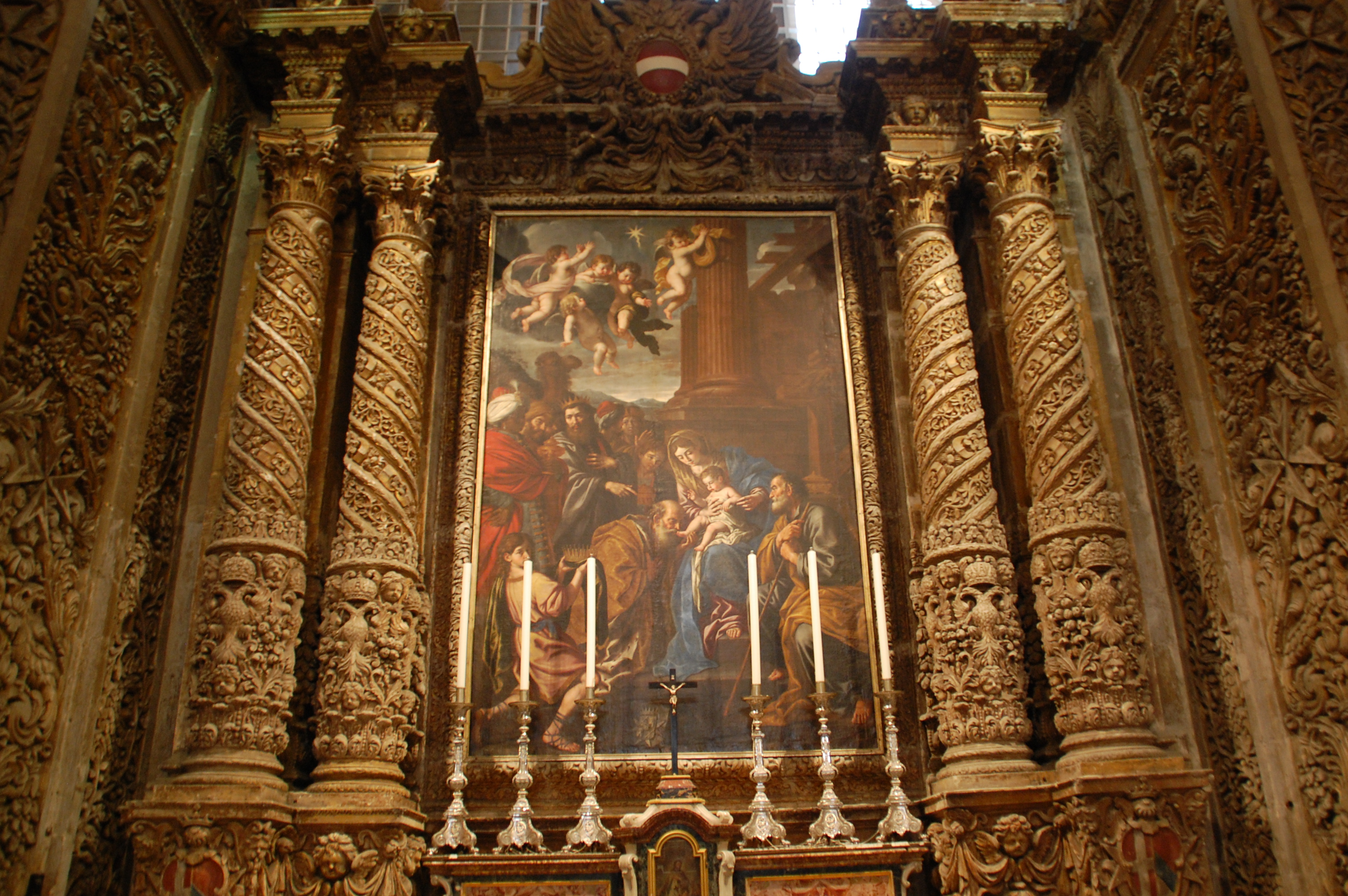 Detail from St John's Co-Cathedral, Valletta, Malta